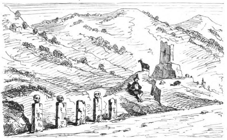 Skulls of brigants over pillars at Campo Tenese (Morano Calabro, Calabria Crani di briganti esposti sopra pilastri a Campo Tenese (Morano Calabro) Calabria, in un disegno del 1852